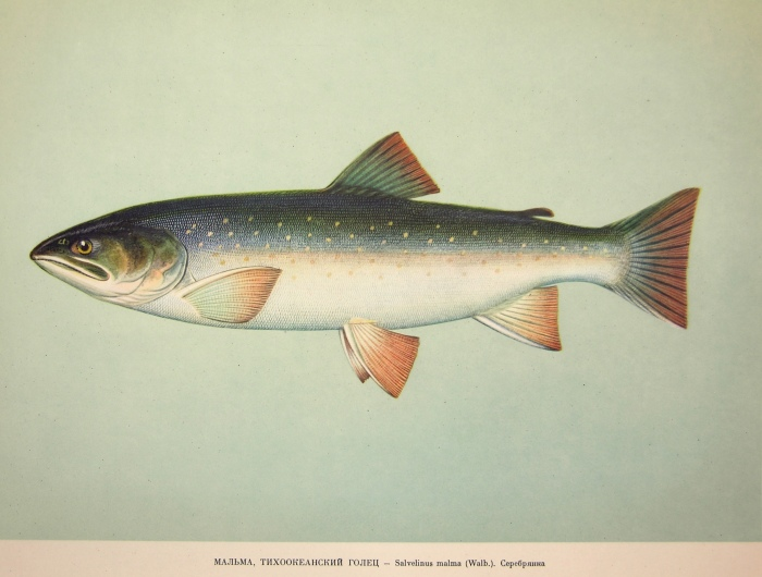 Plate 55. Salvelinus malma (Walb.). Family Salmonidae. In: Fishery Resources of the USSR, N.N.Kondakov, Artist Editor. 1957. NOAA Central Library Call Number: SH91.R9 1957.